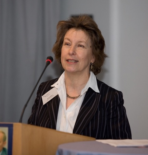 Alison Wolf, Professor, King’s College London Presentation: Two for the price of one? The contribution to development of new female elites